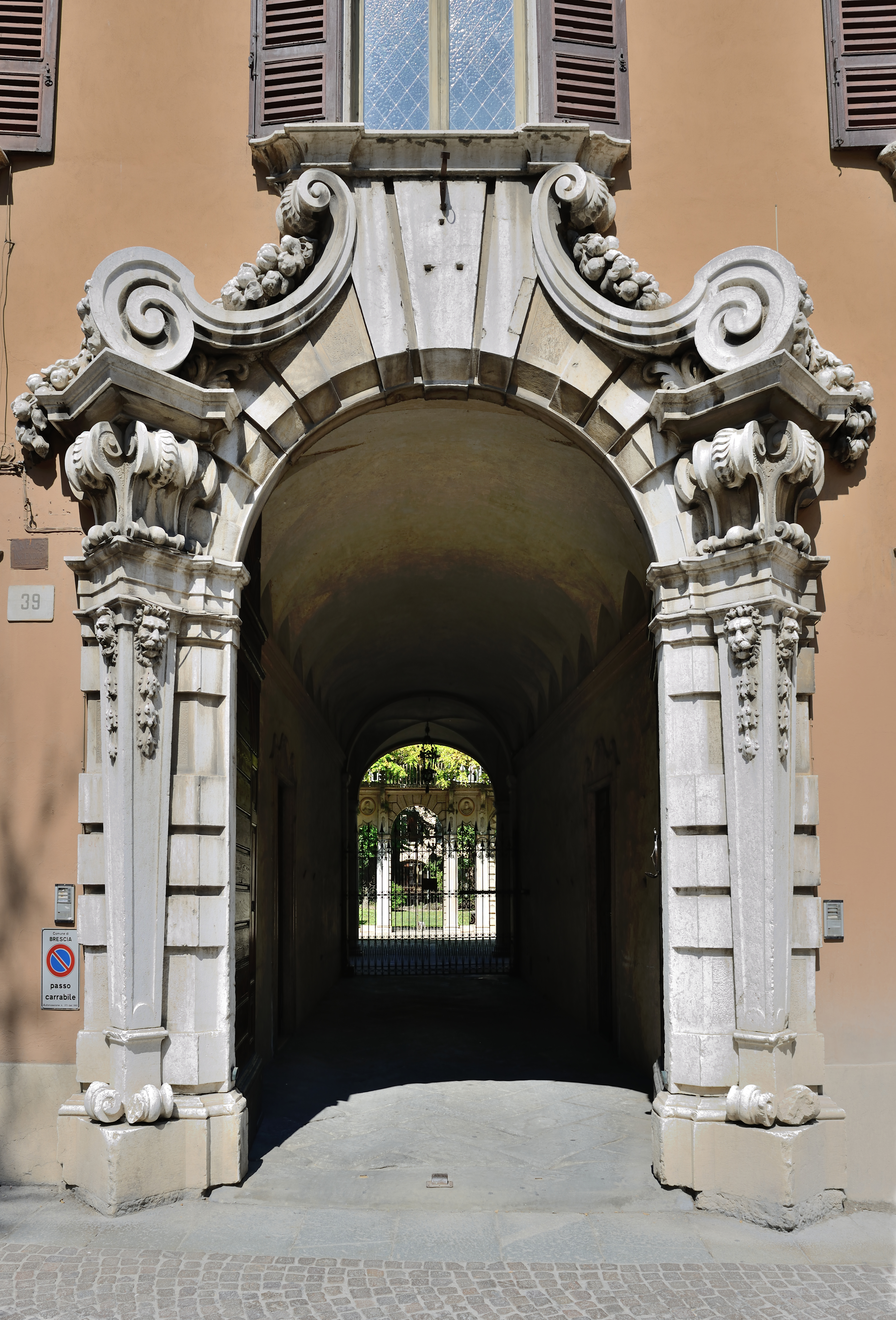 Baroque portal, Palazzo Bruni Conter in Brescia